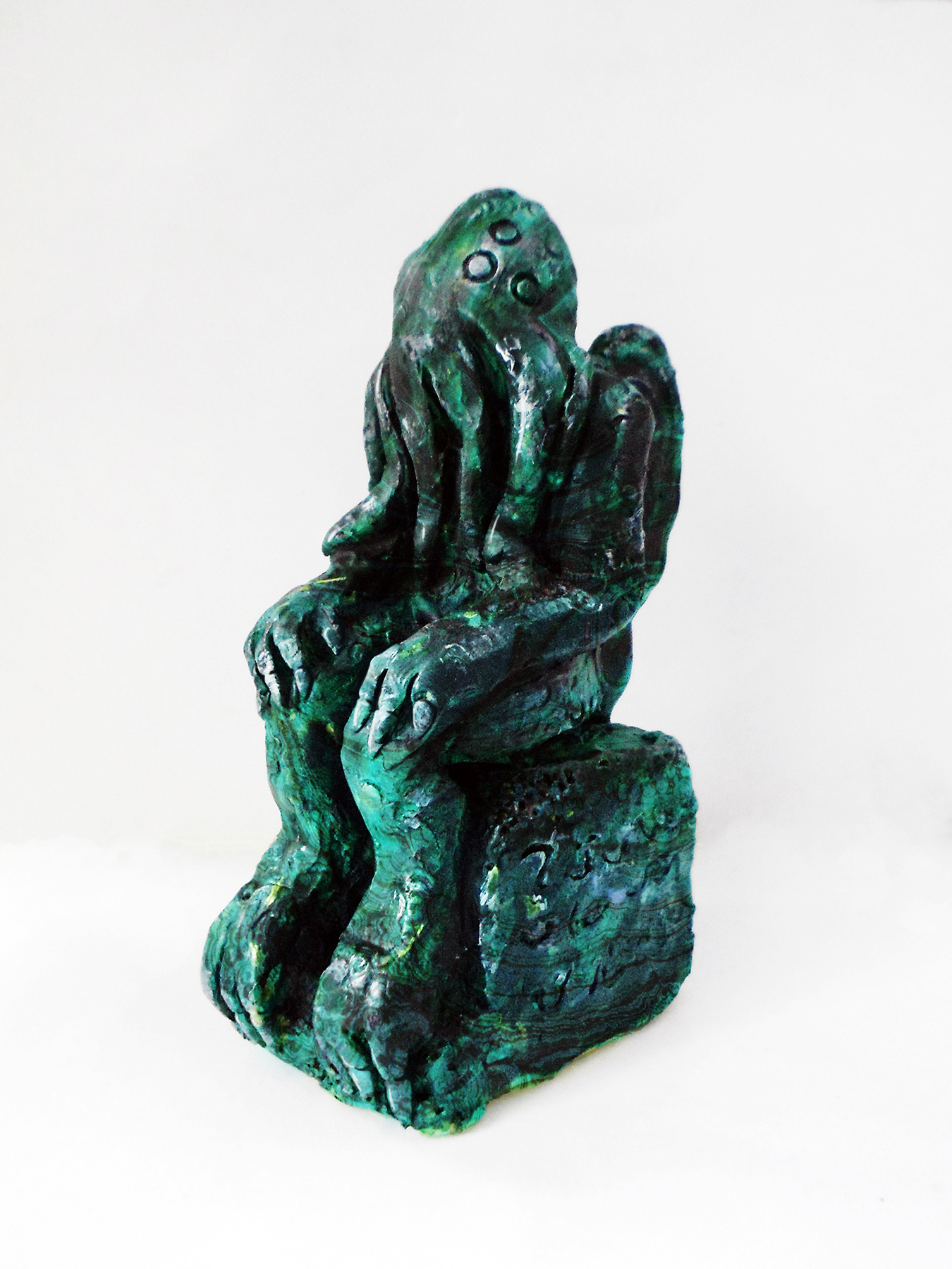 The statuette of Cthulhu, created by the description from the story "The Call of Cthulhu." Plasticine, acrylic, superimposed texture of malachite.